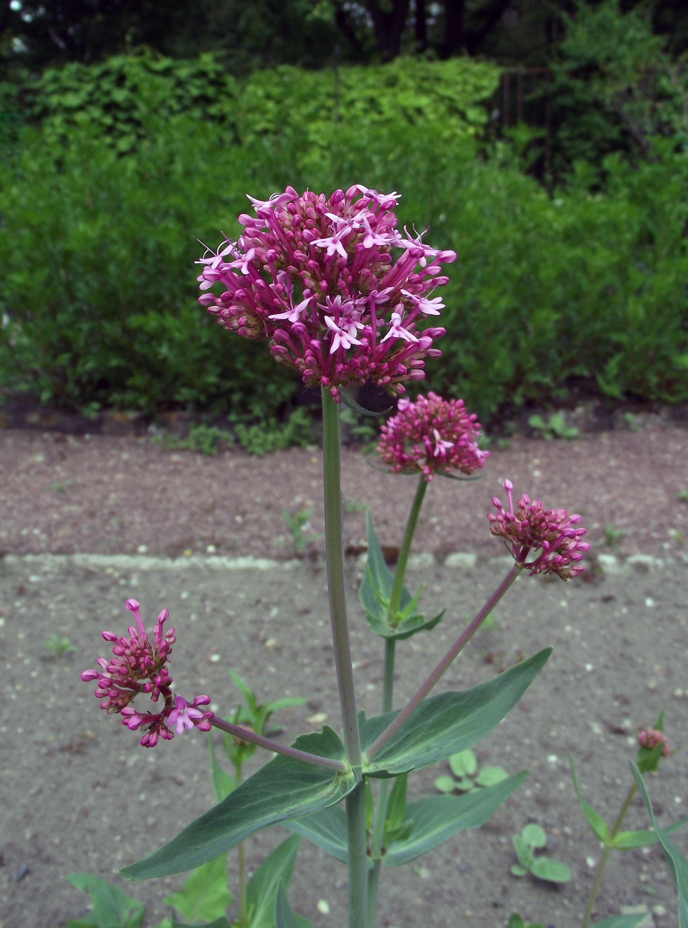 Centranthus ruber, also called Valerian or Red valerian is a popular garden plant grown for its ornamental flowers. Other common names include Jupiter's Beard and Spur Valerian. Flowers.